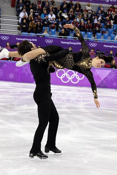 Tessa Virtue and Scott Moir at the 2018 Winter Olympic Games in PyeongChang